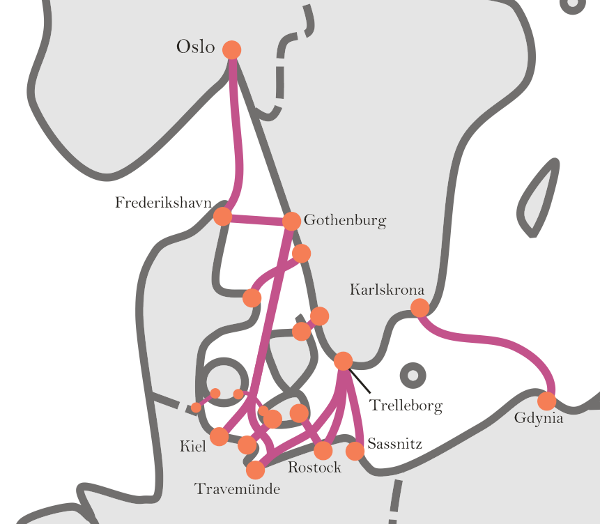 Ferry services of Stena Line in Scandinavia and Germany